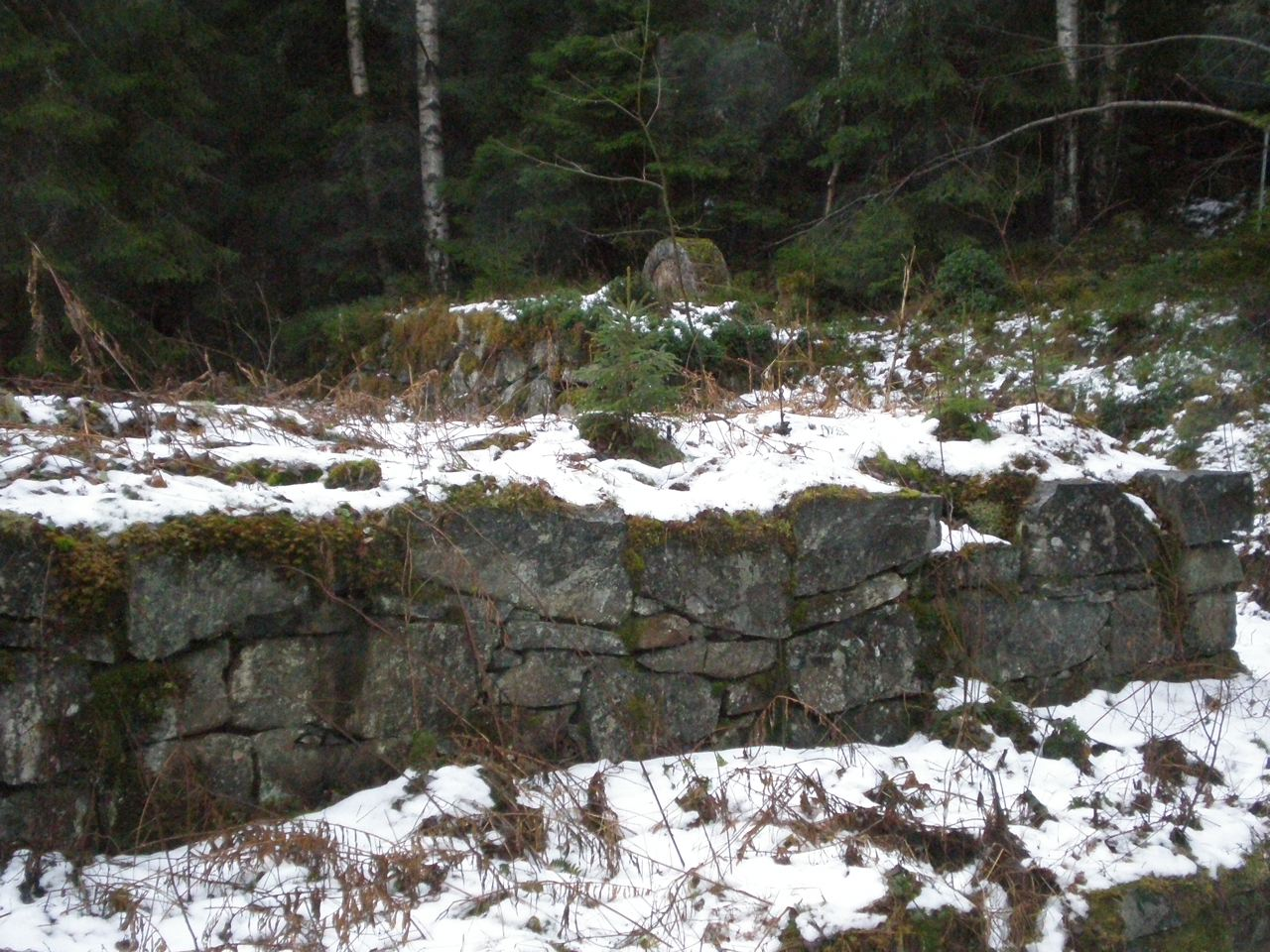 Högfors, Gräsmark